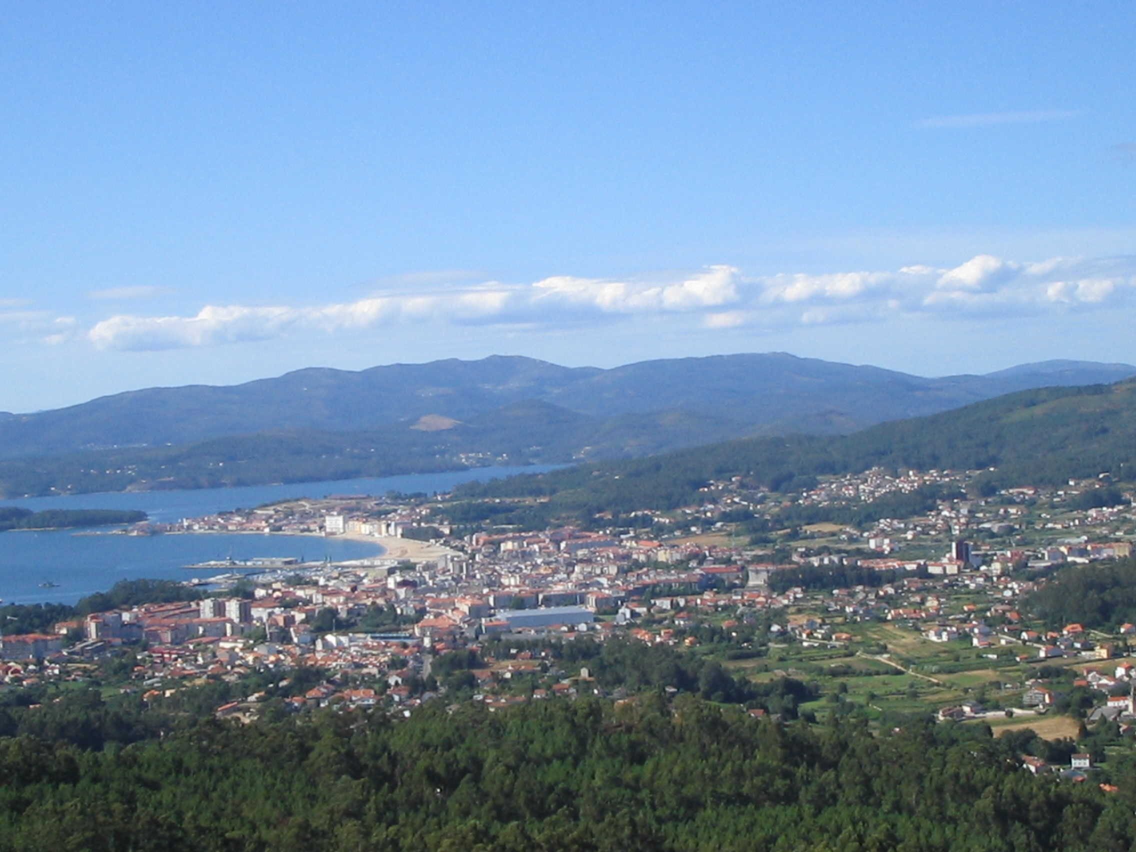 City of Villagarcía de Arosa in Spain.